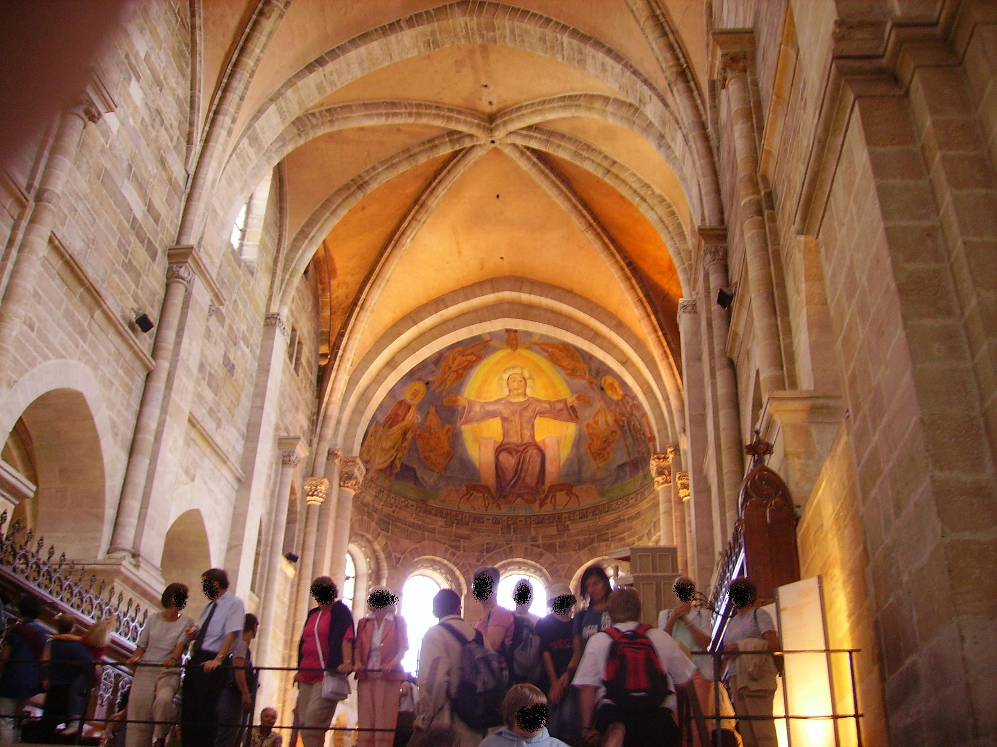 Choir of the Imperial Cathedral Sts. Peter, Paul & George, Bamberg